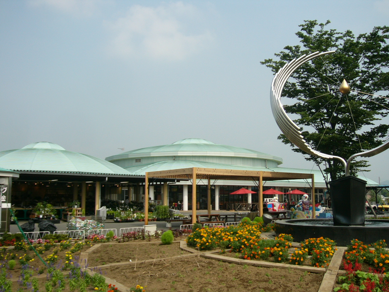 Michinoeki Domannaka Tanuma in Tochigi Prefeecture, Japan